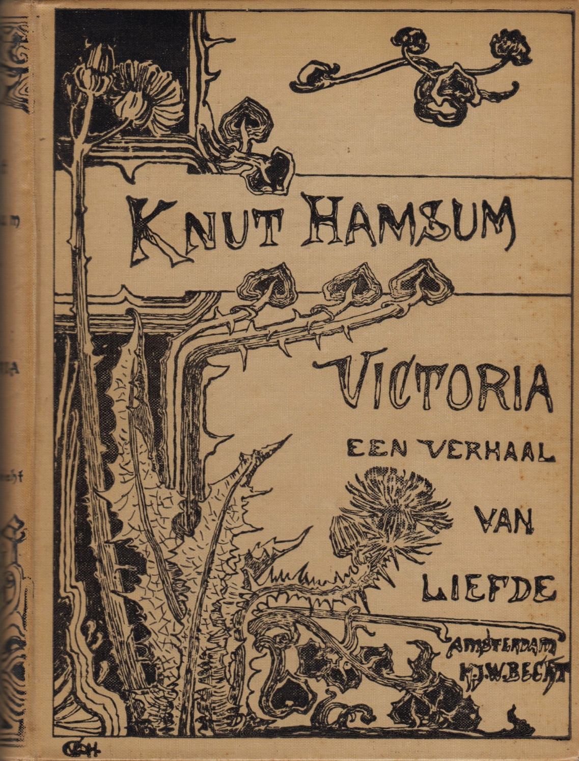 Cover first Dutch edition Victoria, By Knut Hamsun